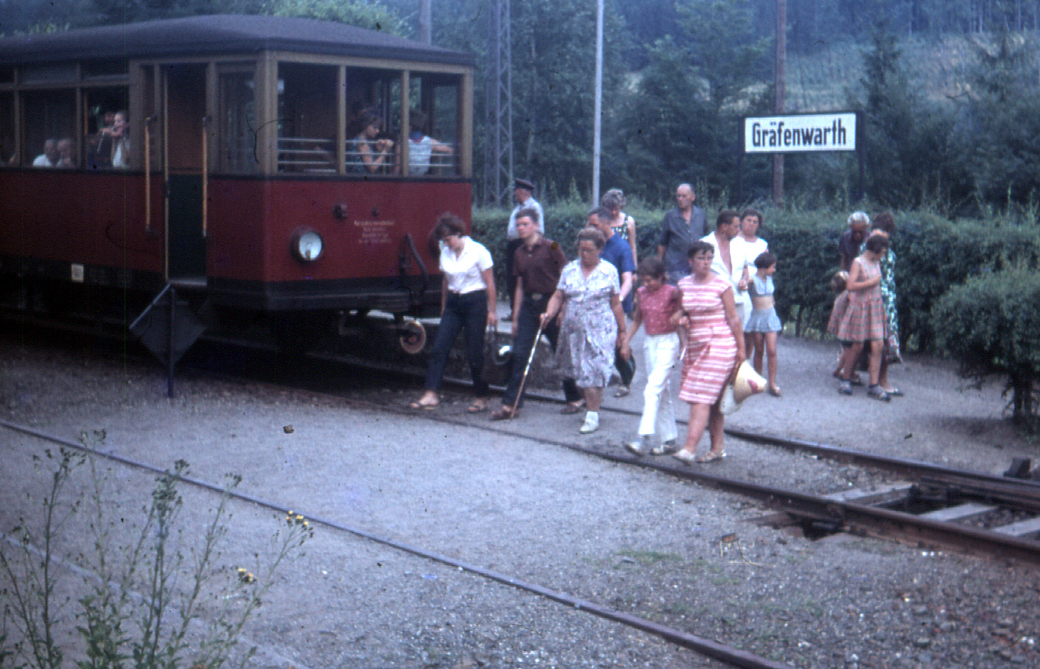 Railway Station Gräfenwarth